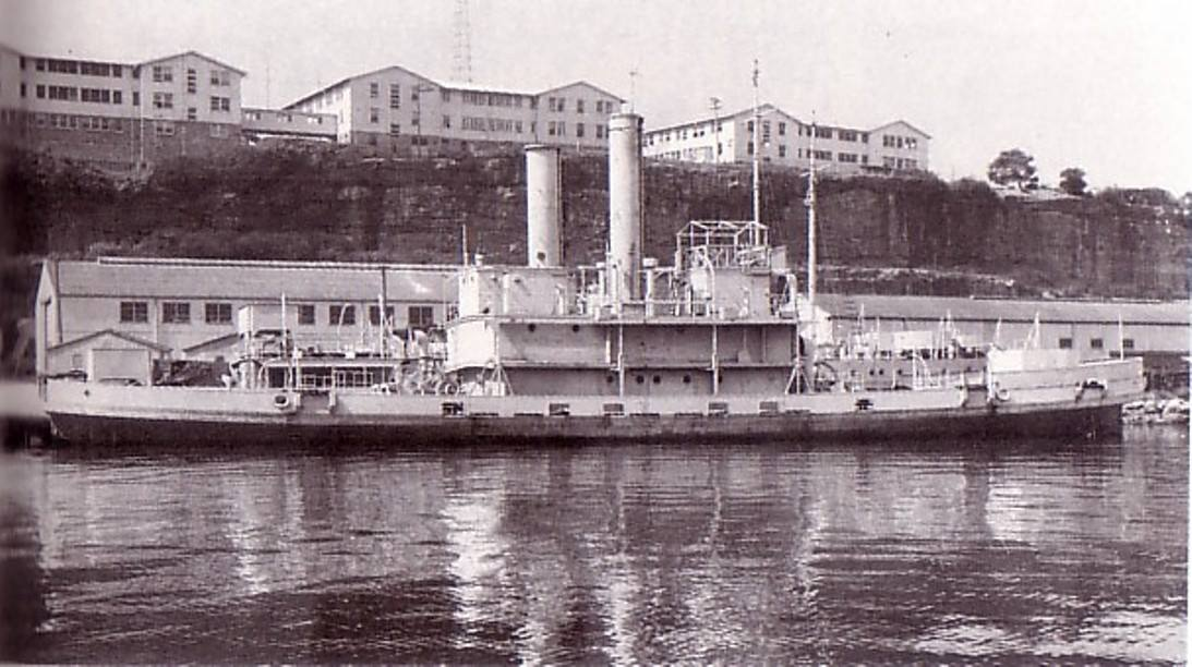 HMAS Koompartoo at HMAS Waterhen during World War 2 after conversion from passenger ferry to naval boom defence vessel.